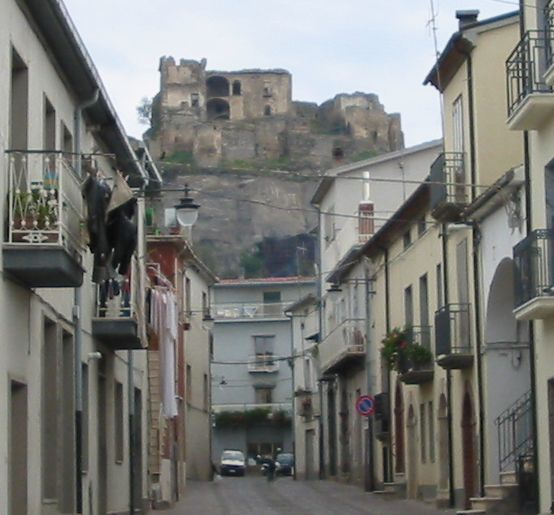 Laurenzana Castle Ruins 2011